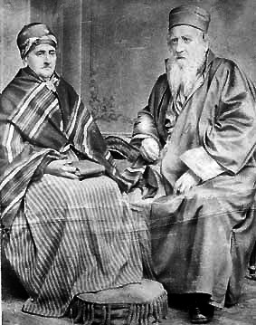 A portrait of the Rabbi Yehuda Alkalai and his spouse Esther